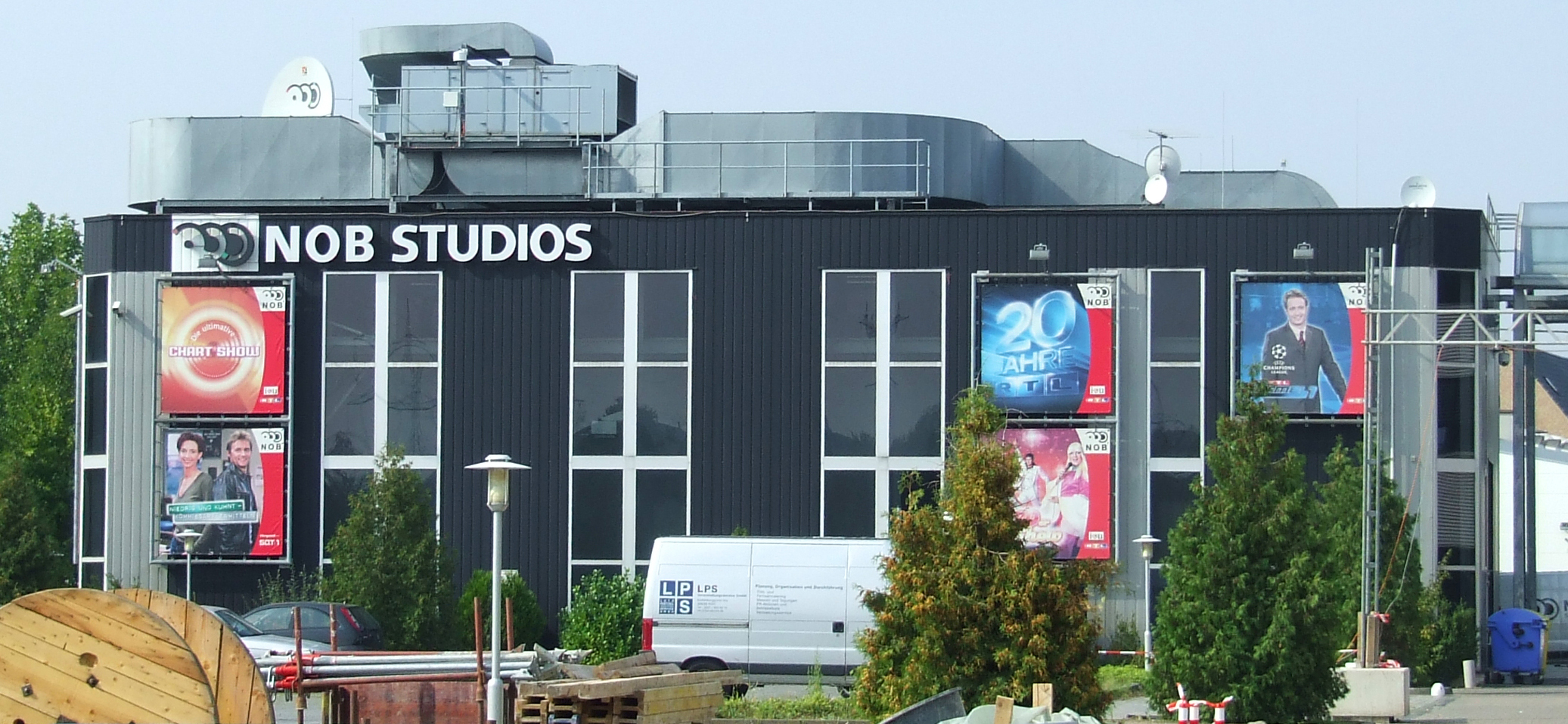 The NOB Studios in Hürth (Germany)